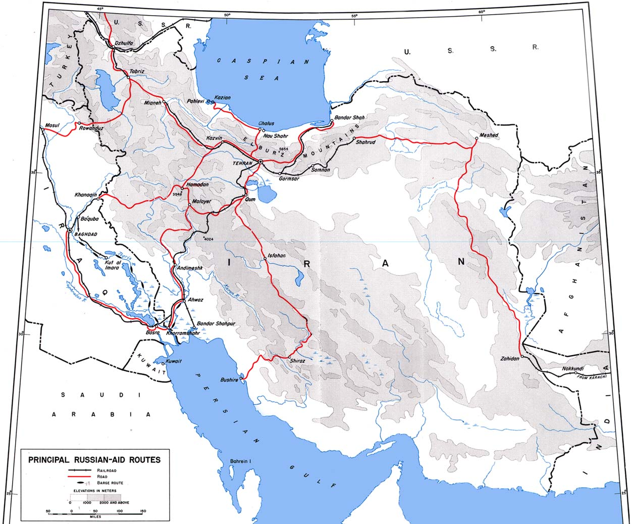 Map of Principal Russian-Aid Routes